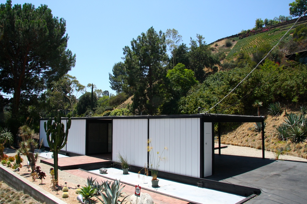 Pierre Koenig's Case Study House #21